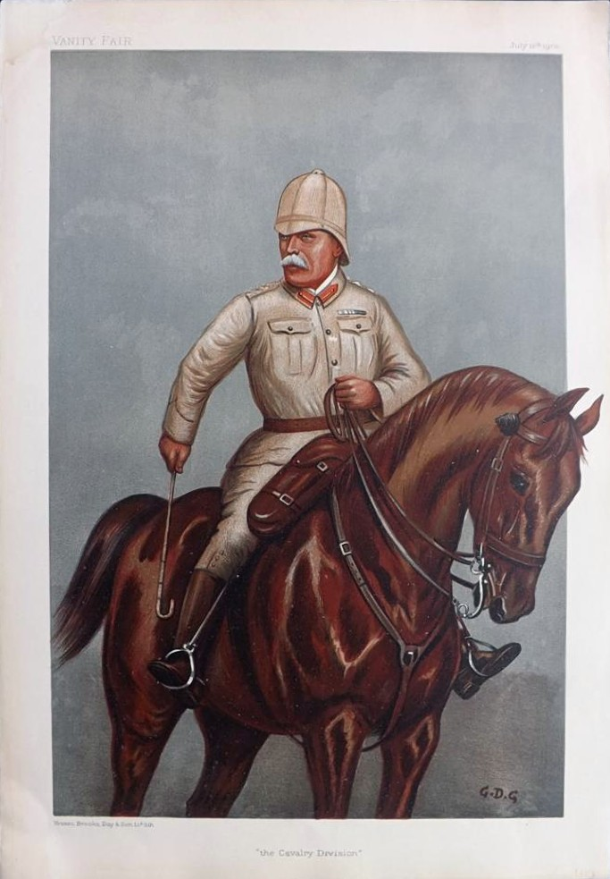 Caricature of General John French. Caption read "The Cavalry Division".